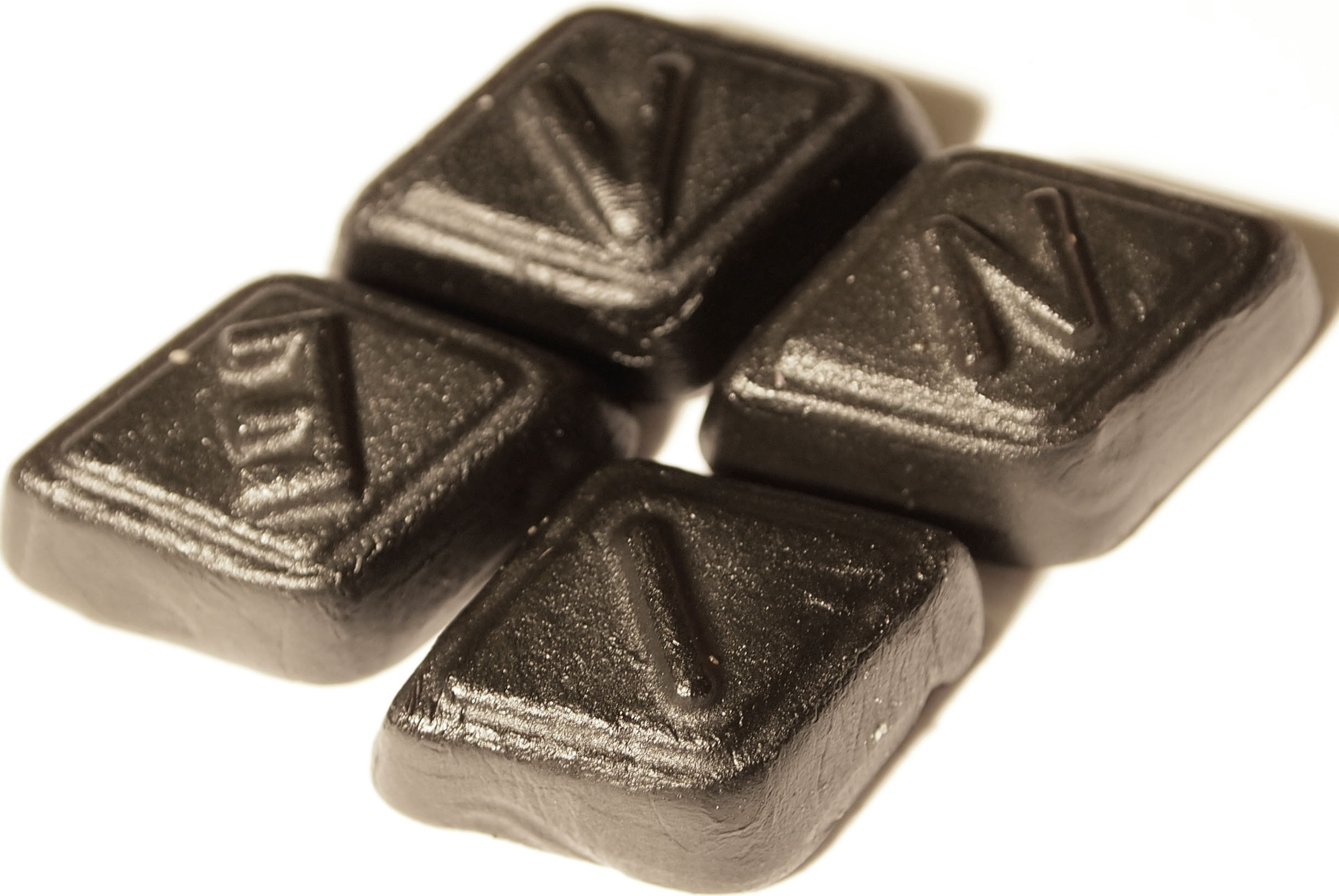 Salmiak candy letters